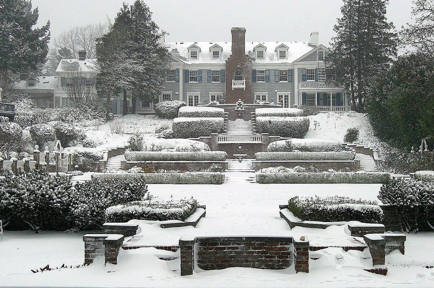 The historic Theodore B. Wilcox Country Estate (built 1917), located at 3707 Southwest 52nd Place in Portland, Oregon, United States, is listed on the US National Register of Historic Places (NRHP). NRHP reference number 93000019